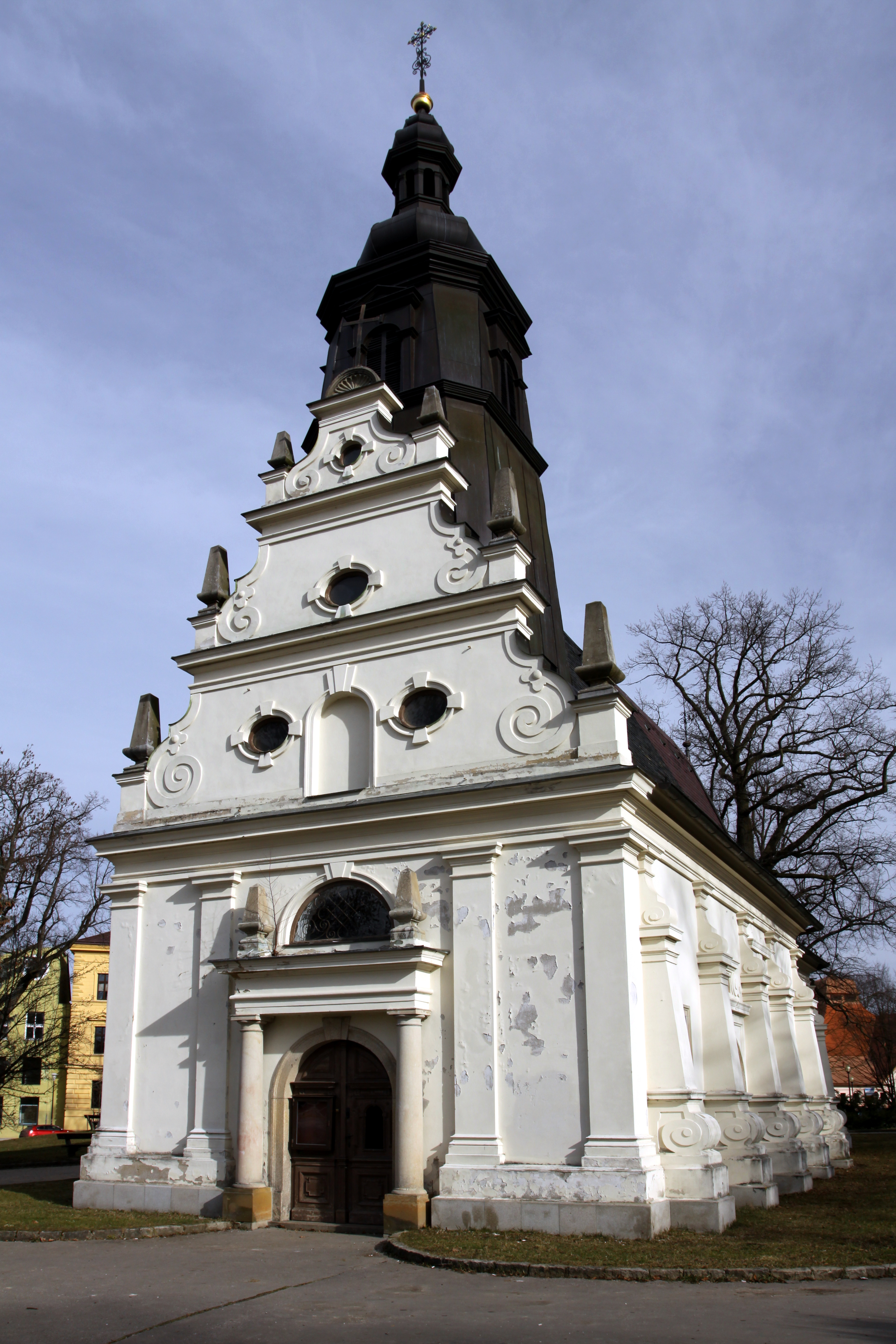 Church of the Holy Spirit in Jihlava, Jihlava District, Czech Republic